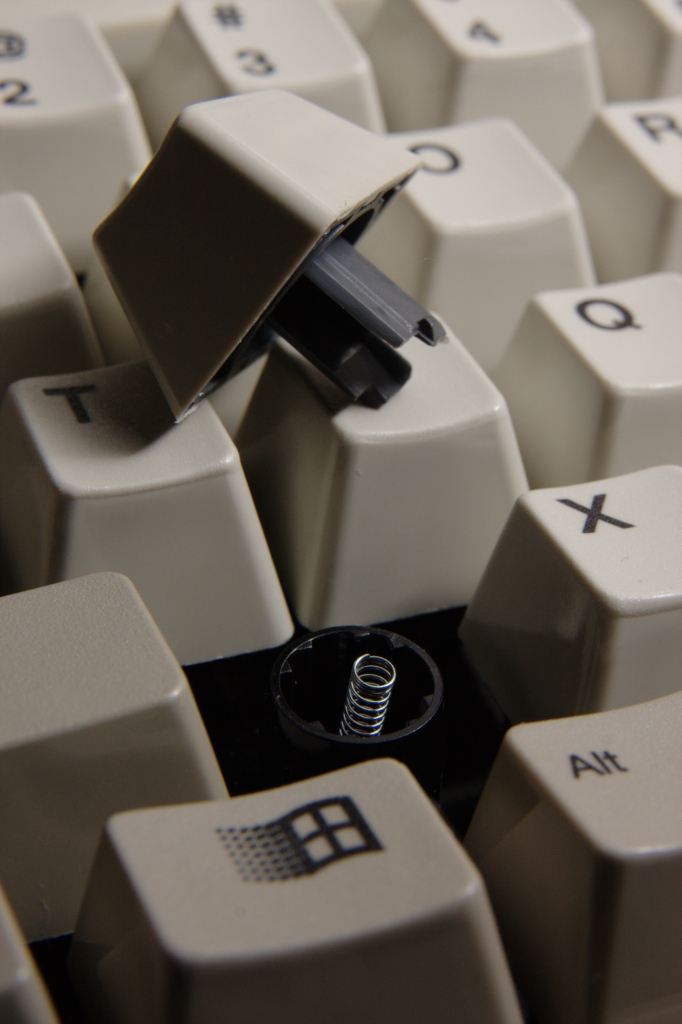 Unicomp space saver model m, with Z key removed, exposing the buckling spring.